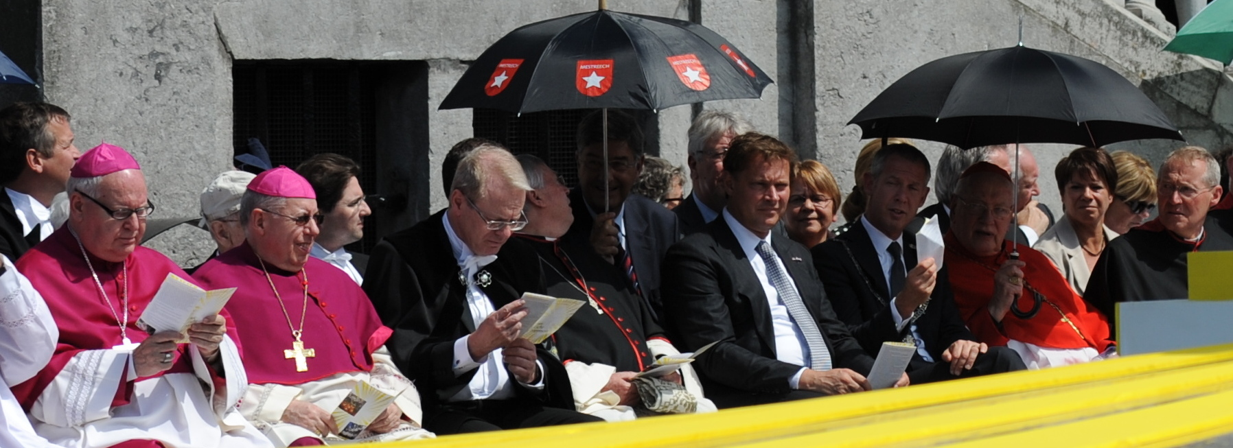 Officials watching the procession of the 7-yearly pilgrimage (Heiligdomsvaart) in Maastricht.